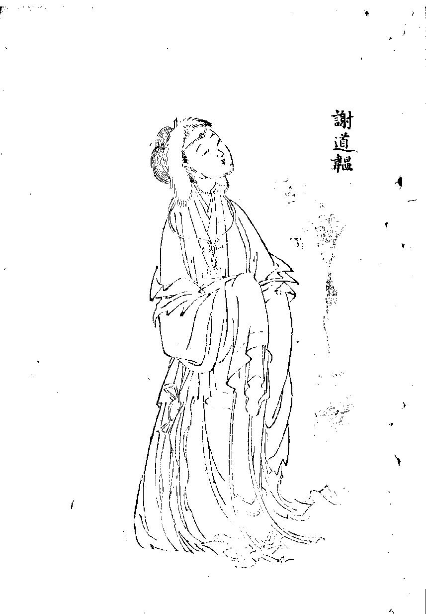 A writer of the Jin Dynasty.